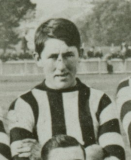 Photograph of Bill Heatley in 1908.